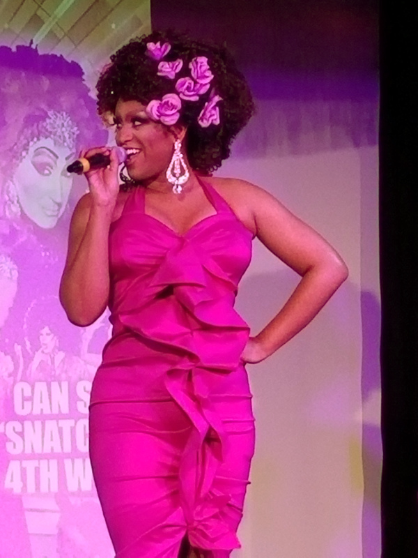 Honey Mahogany performing at Oasis in San Francisco, California, United States